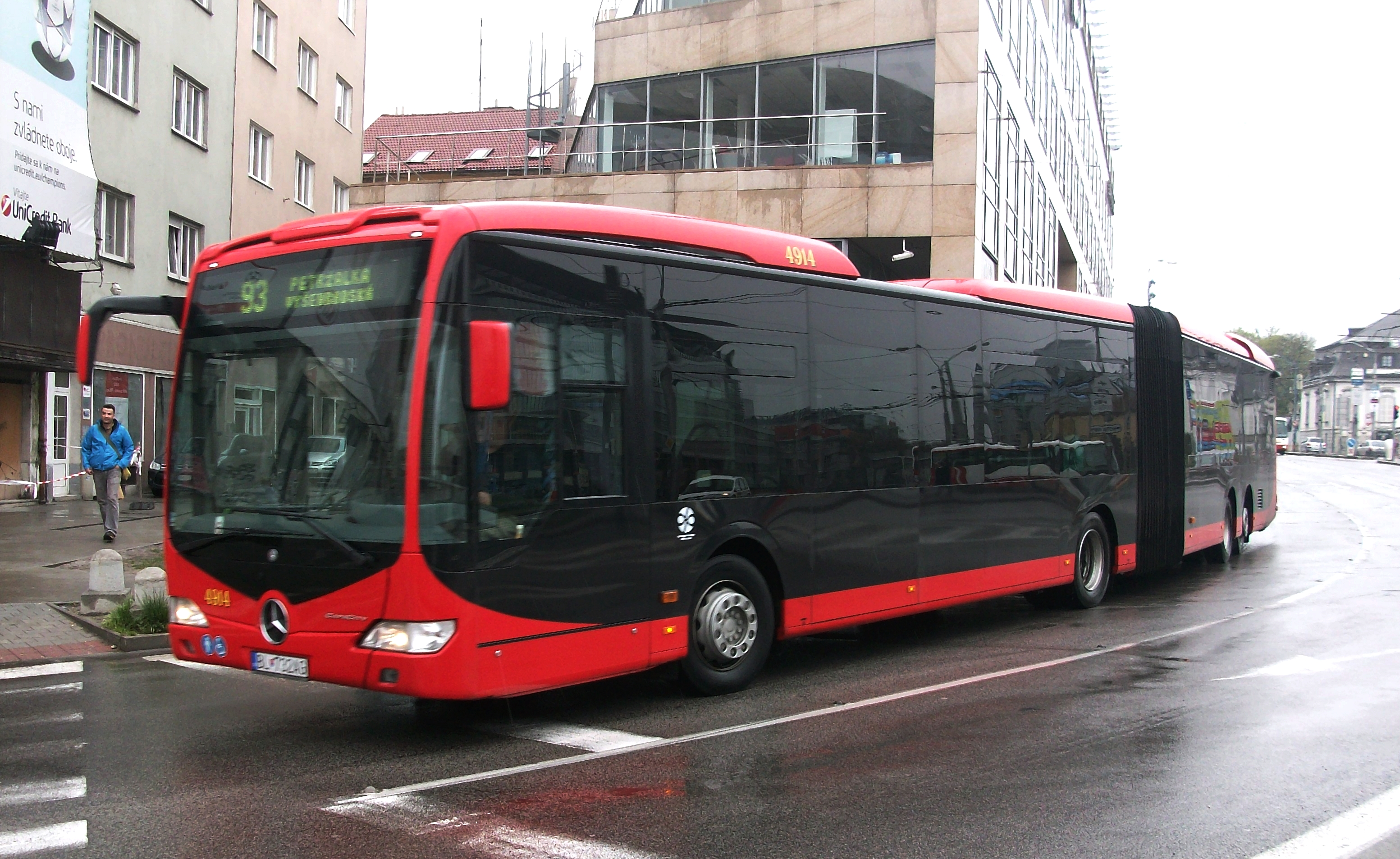 Mercedes-Benz CapaCity, Bratislava